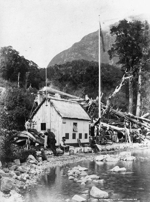 Men outside the Esperance Chalet, Kennedy Station, Southland. Ref: 1/2-024837-F. Alexander Turnbull Library, Wellington, New Zealand. Five unidentified men outside Donald Sutherland's hut, the Esperance Chalet, Kennedy Station, Southland. Taken by an unidentified photographer during the 1880s. Image not restricted